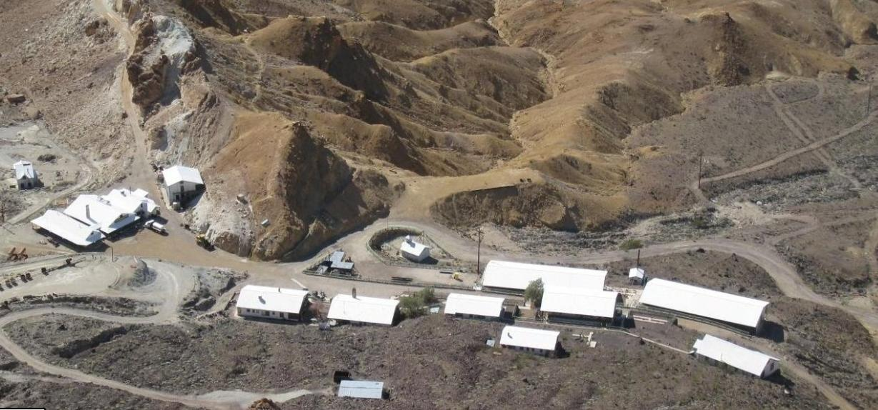 Photo taken from PUBLIC LAND location 36°19'19.0"N -116°39'54.7"W